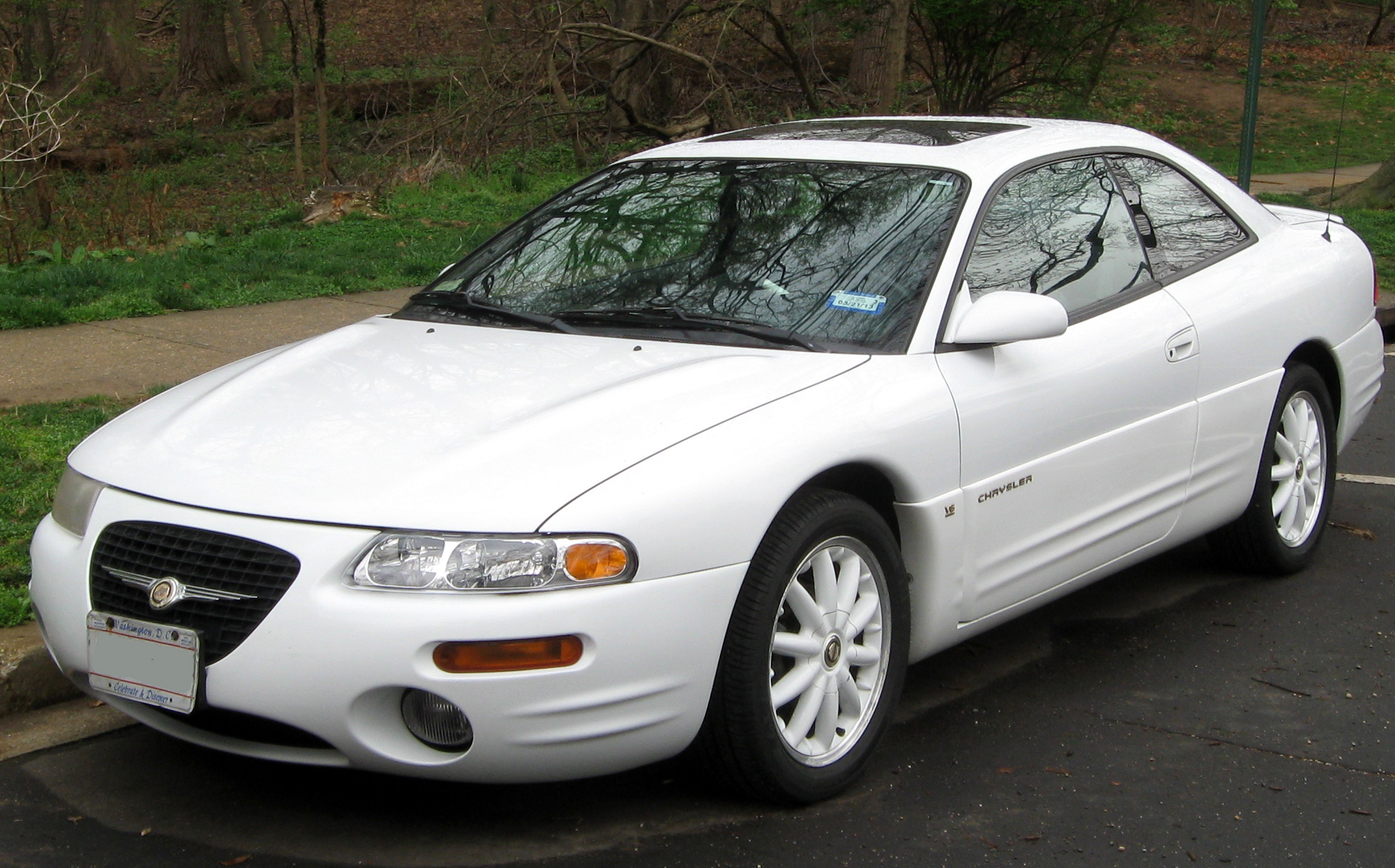 1997-2000 Chrysler Sebring photographed in Washington, D.C., USA.